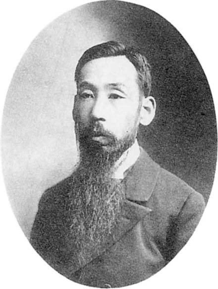 Y. Hozumi, Director of the College of Law.